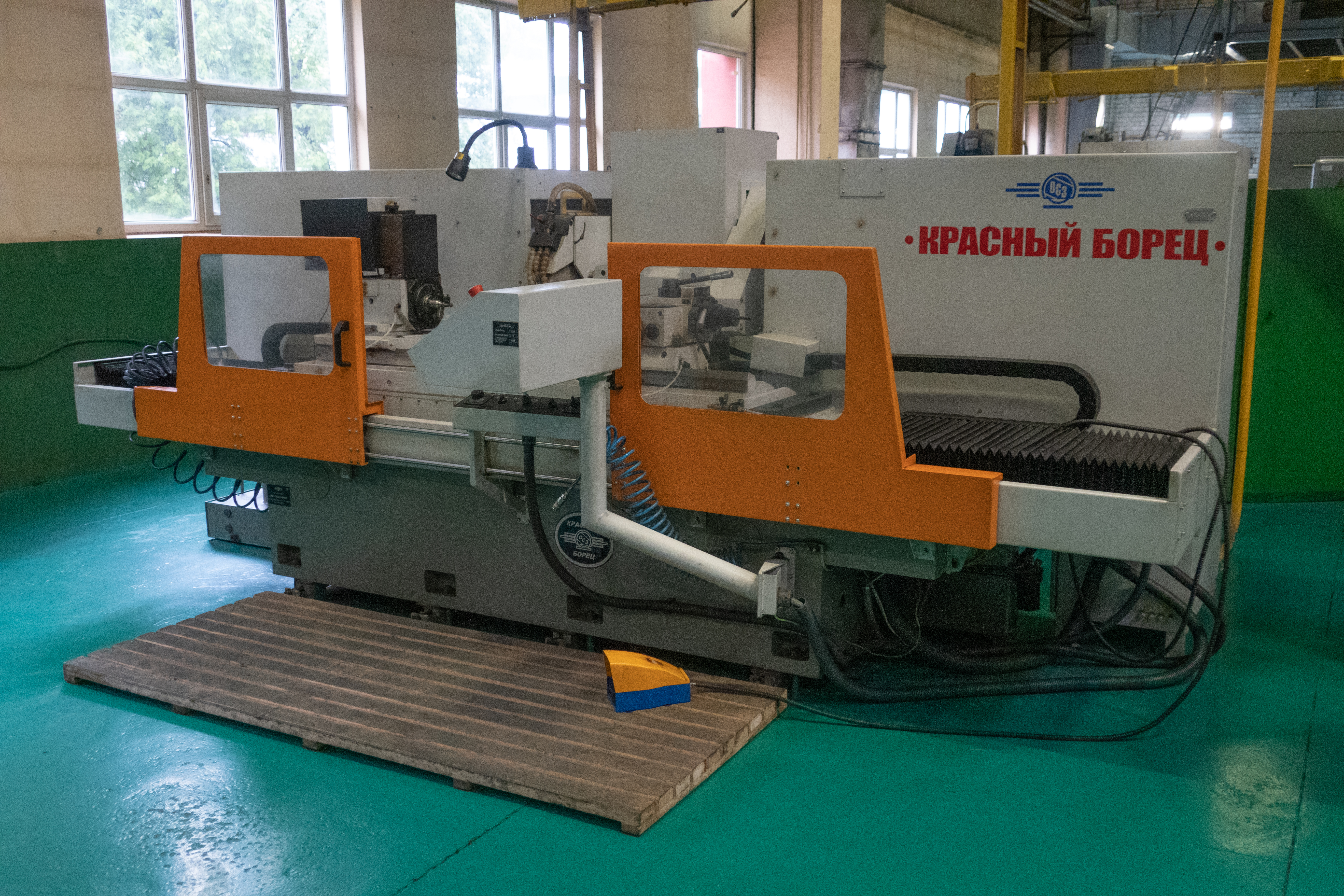 Circular grinding machine tool OSZ Red Fighter OSh-660.1.F2. Seen at MZKT (Volat) open day 2019 (Minsk, Belarus)